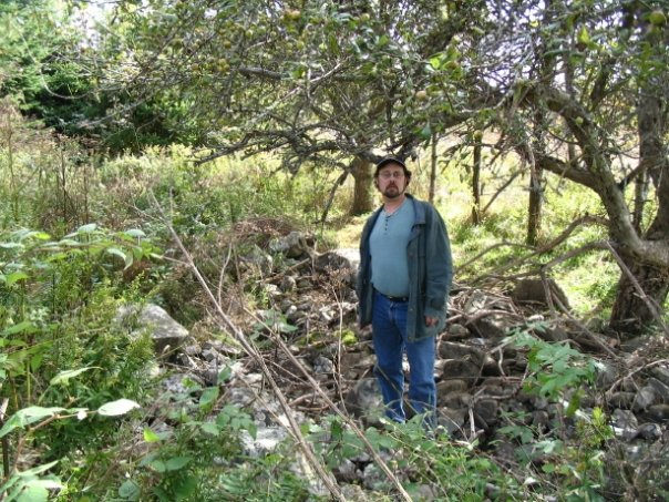 This is a photo of the remains of Ranald MacKinnon's home on Sargeant's Hill in Glenwood, Nova Scotia, taken in 2009.